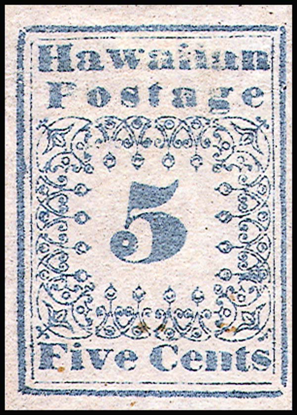 Stamp of Hawaii, 5 c., 1851